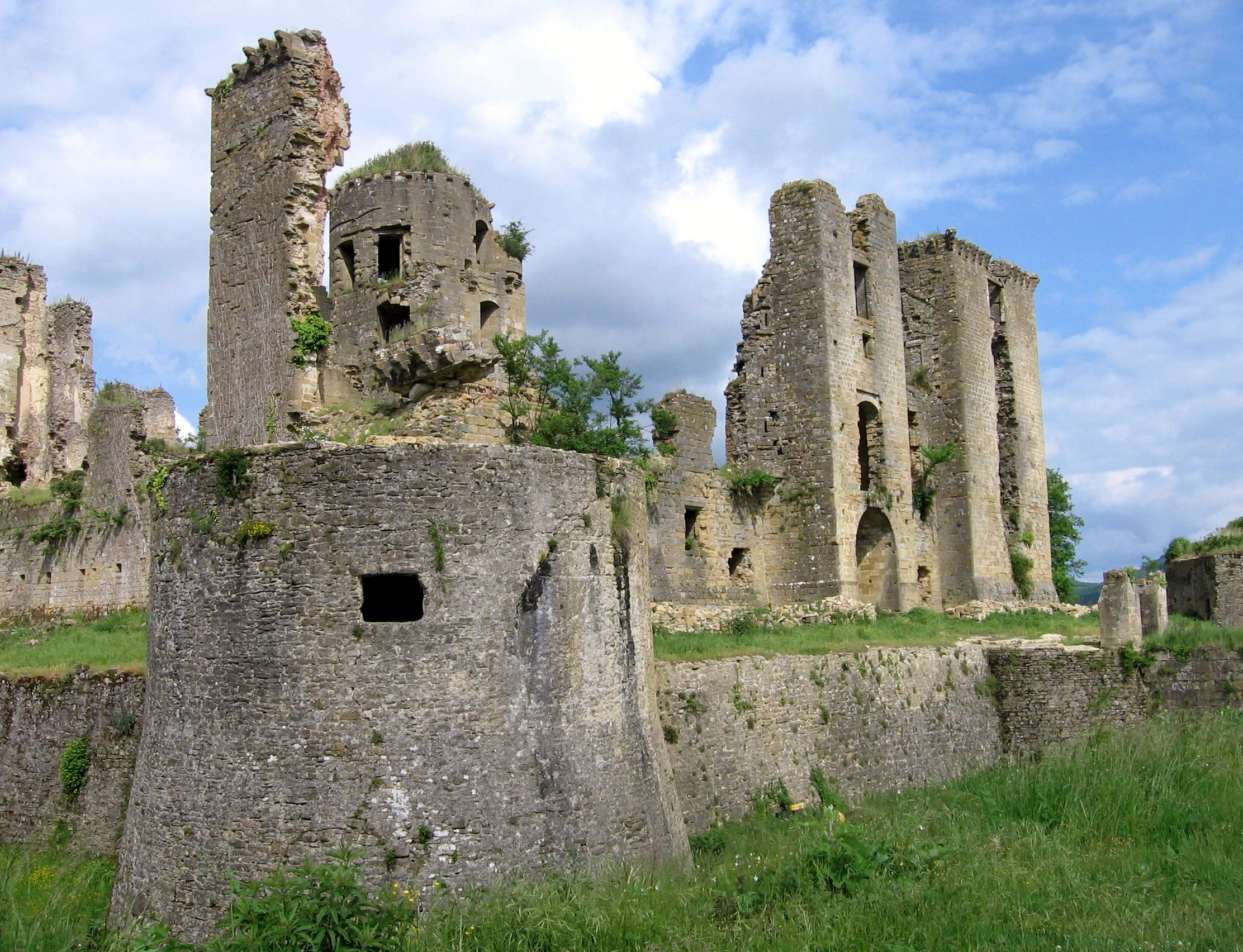 Castle of Lagarde, Ariège, France